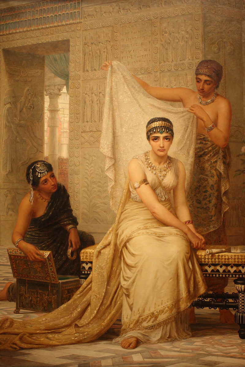 Painting by Edwin Long, 1878. Location of painting: National Gallery of Victoria, Melbourne.